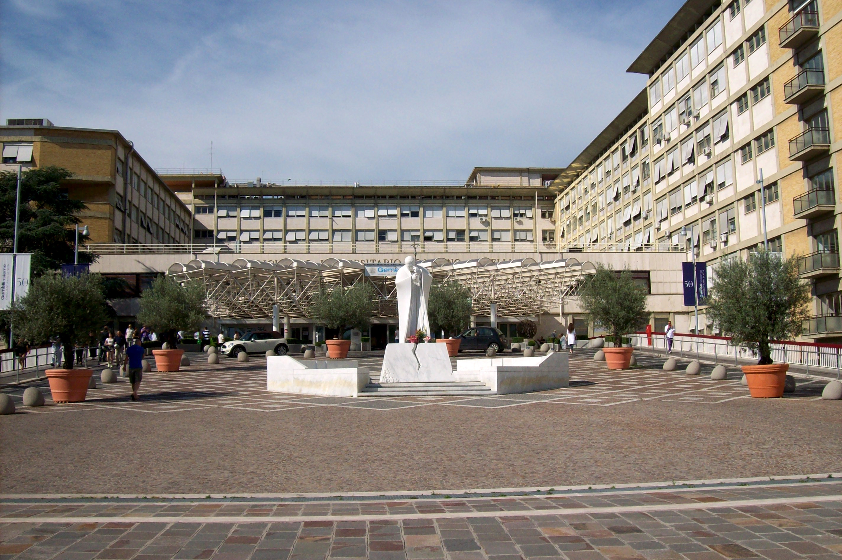 Agostino Gemelli university hospital, part of the Università Cattolica del Sacro Cuore (Catholic University of the Holy Heart of Jesus). The statue on front is a marble monument to the late John Paul II